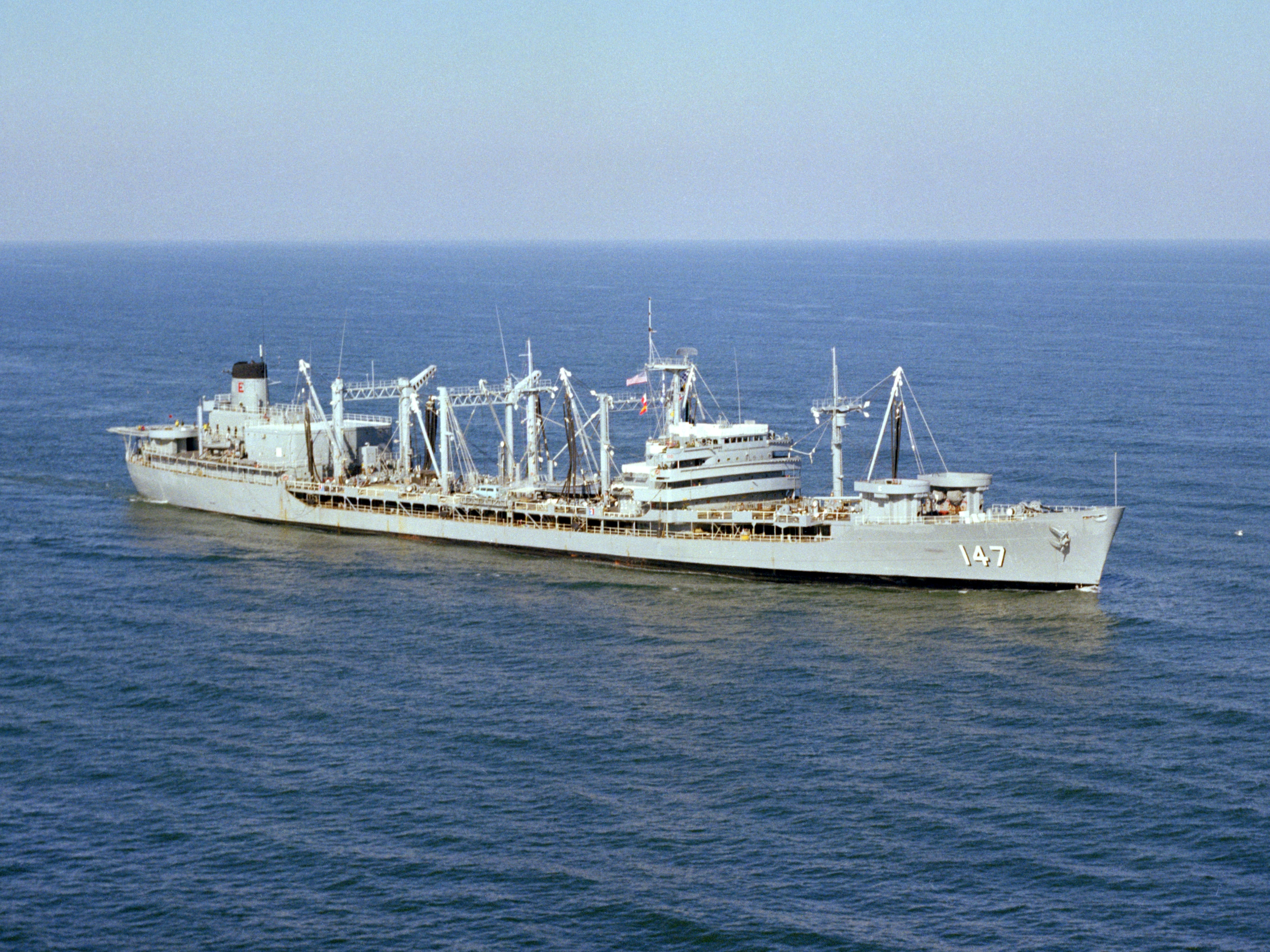 The U.S. Navy fleet oiler USS Truckee (AO-147) underway at sea on 30 January 1980. On that day, she was decommissioned, turned over to the U.S. Military Sealift Command and redesignated USNS Truckee (T-AO-147).